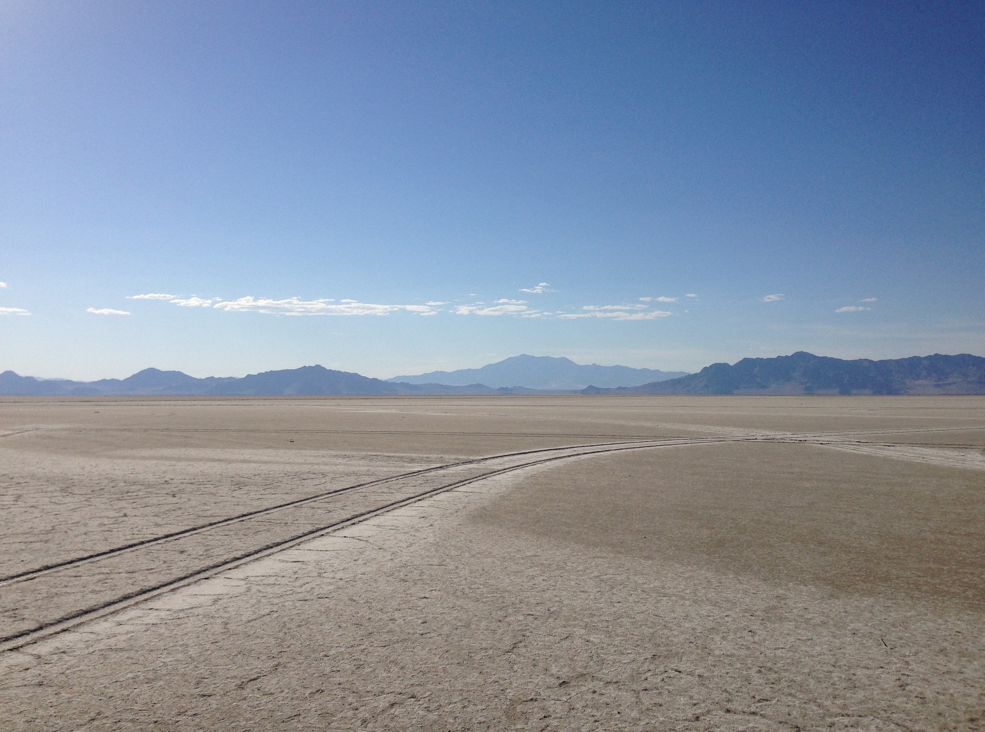 View towards Pilot Peak, Nevada from milepost 17 on westbound Interstate 80 in the Great Salt Lake Desert, Utah